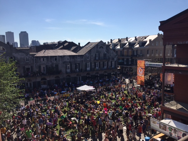 Crowd gathered at Jazz Museum to enjoy a public event.